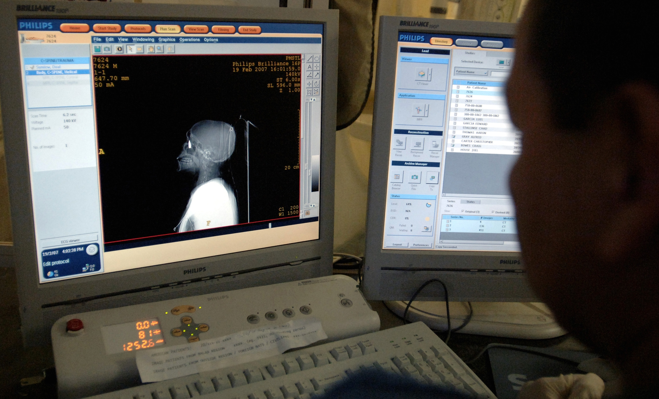 Staff Sgt. Orlando Martinez scans a patient on a CT scan machine at the Air Force Theater Hospital Feb. 19, 2007 at Balad Air Base, Iraq. The radiology staff has two new 16 slice CT scanners that expedite the process from 90 minutes to about 10 minutes. Sergeant Martinez is a diagnostic imaging specialist assigned to the 332nd Expeditionary Medical Group.